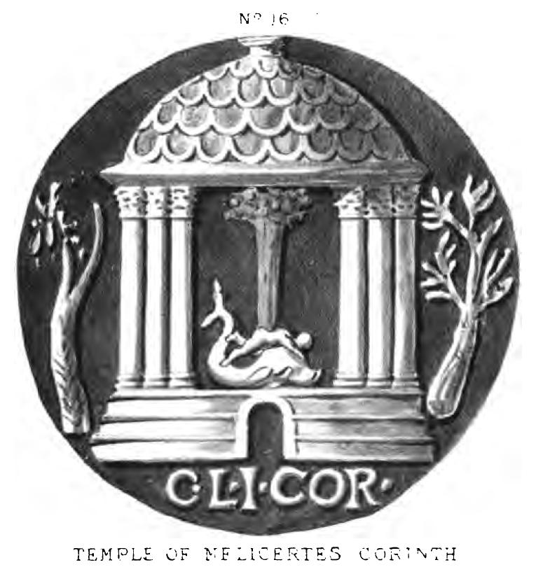 coin